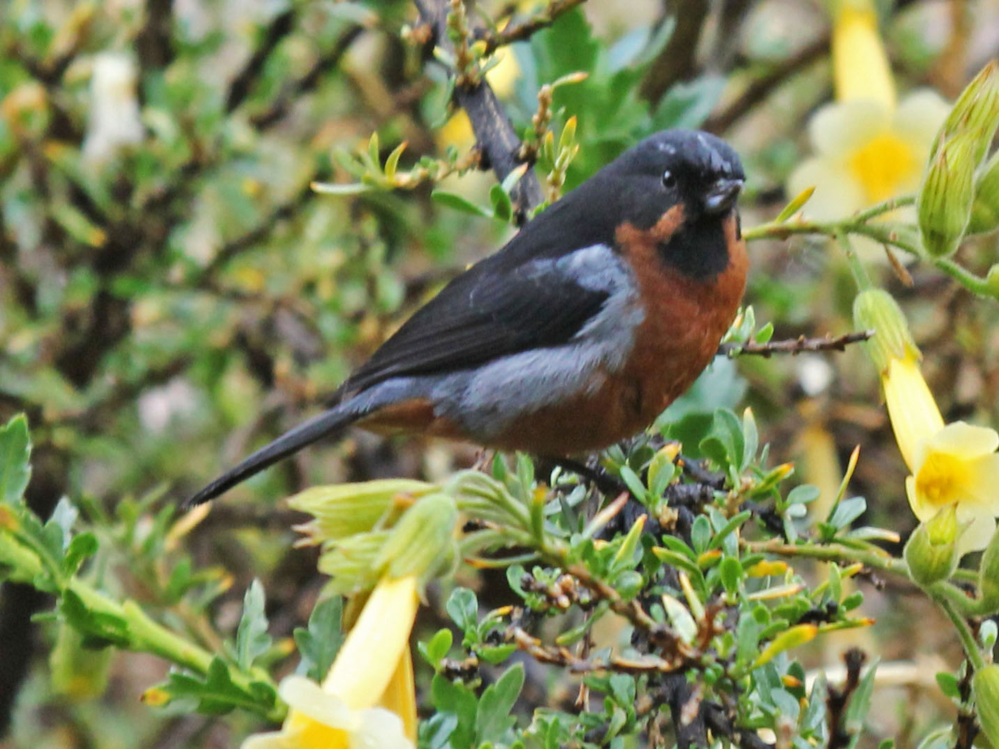 Black-throated Flowerpiercer (Diglossa brunneiventris) - Chinchero, Peru